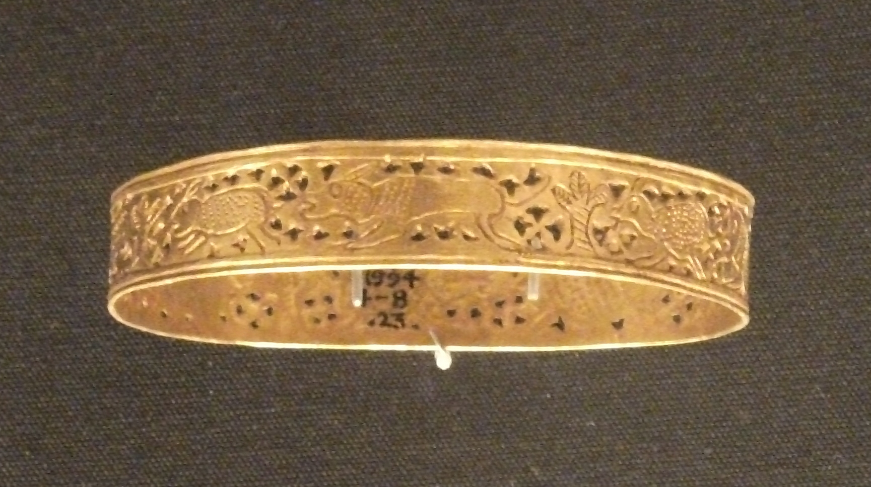 Hoxne Hoard. Gold bracelet (inverted from display). Animal decoration has affinities with the Quoit Brooch Style